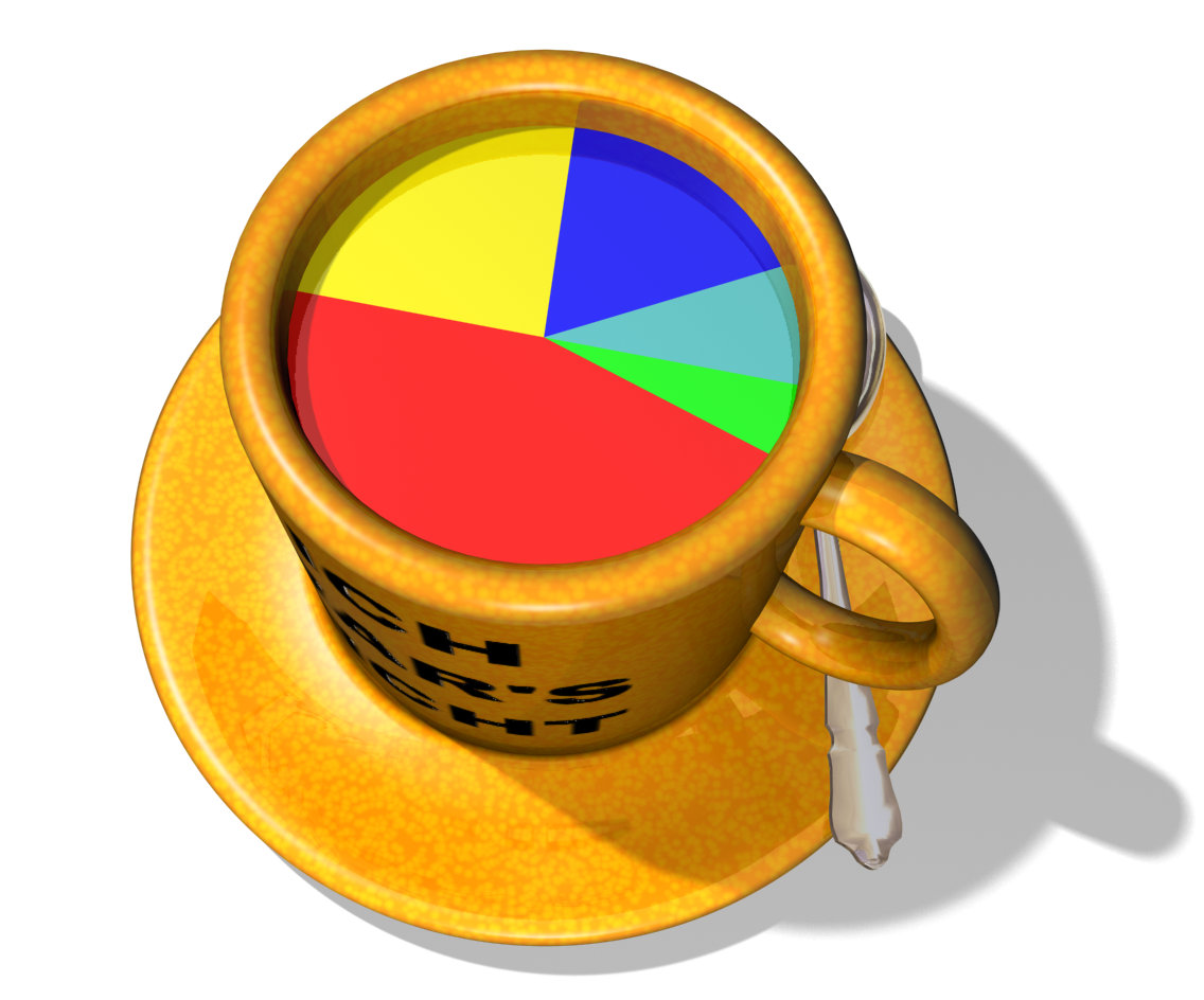 constitution of the price for coffee red: taxes, duties, freight charges yellow: retail trade dark blue: merchant and roaster light blue: owner of plantation green: wage for worker